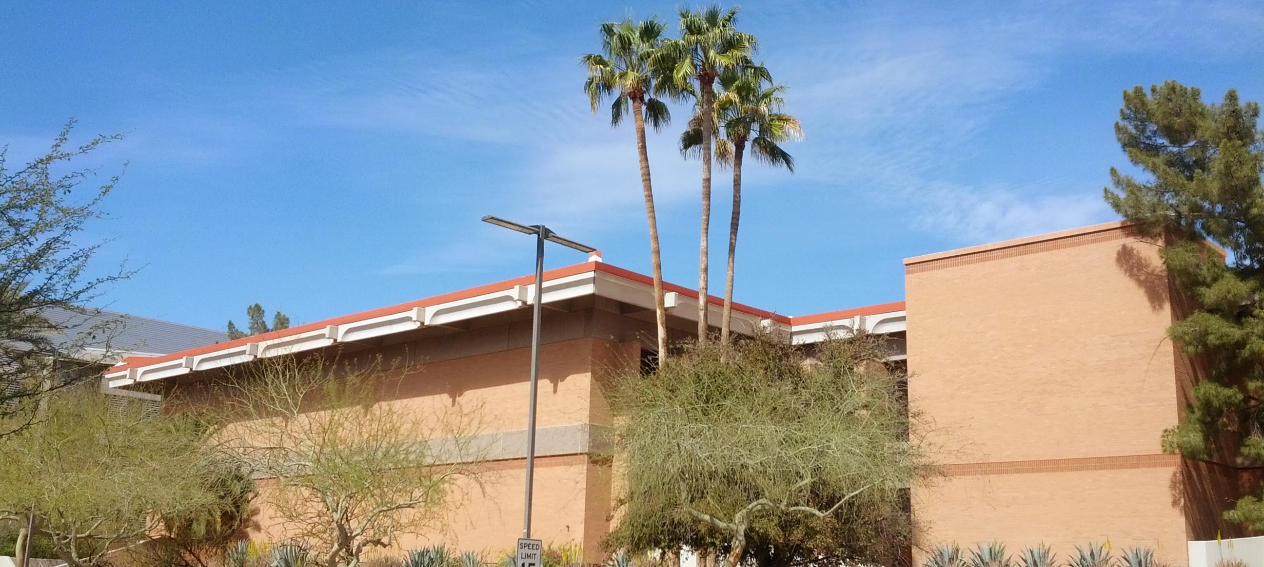 The Schwada Classroom and Office Building (from southeast) at Arizona State University at the Tempe campus.